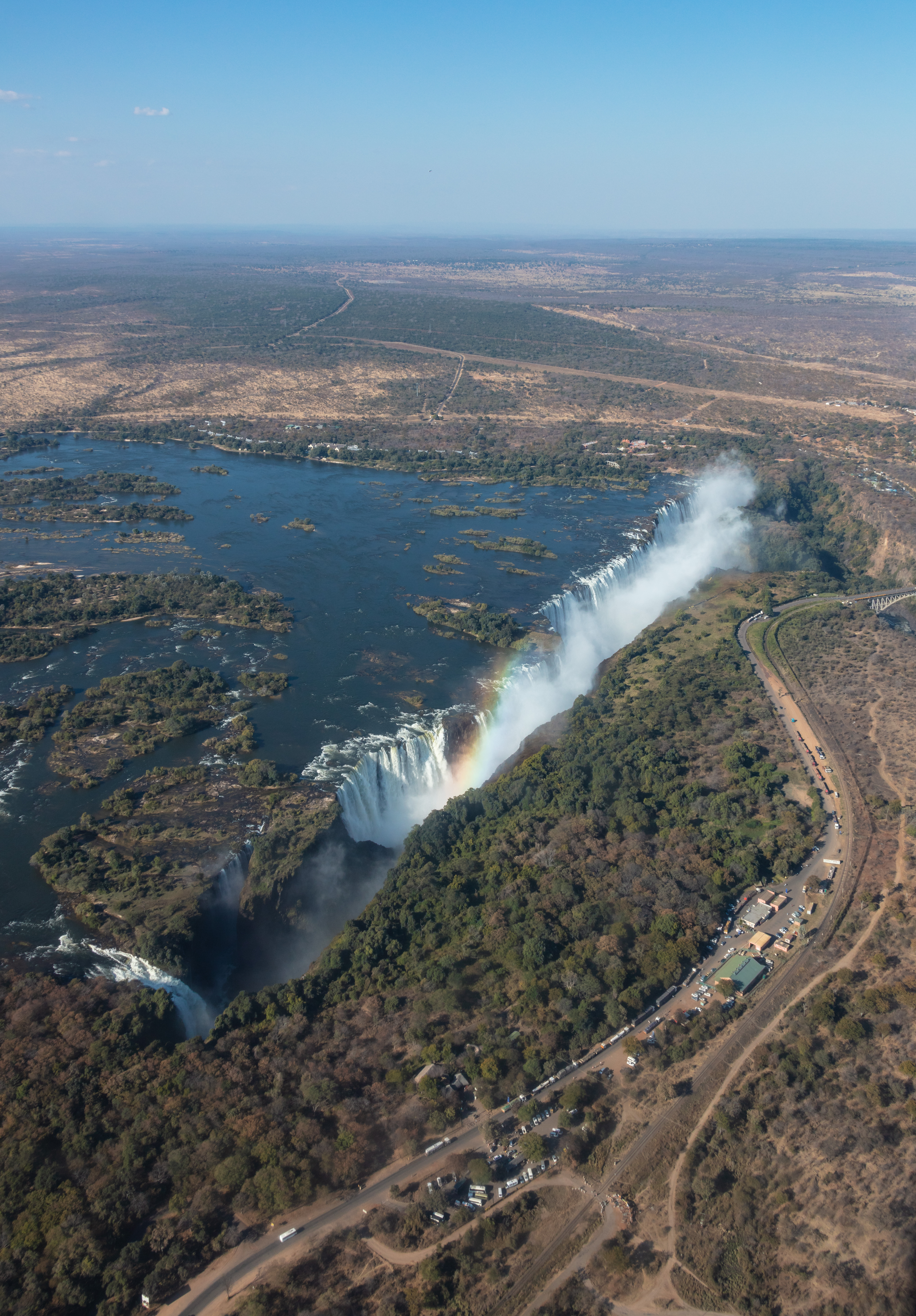 Victoria Falls, Zambia-Zimbabwe